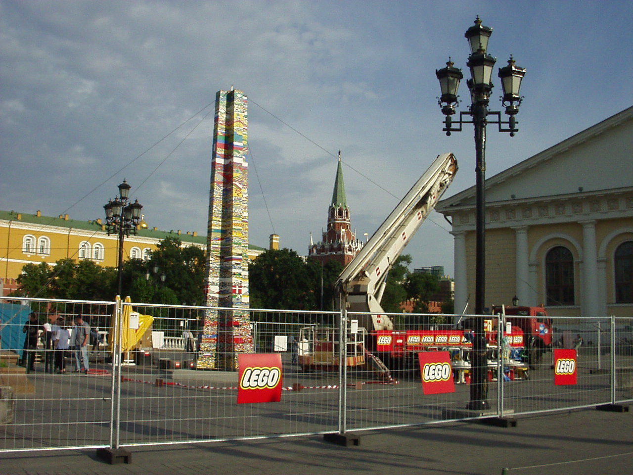 LEGO tower on Manezh Square in Moscow